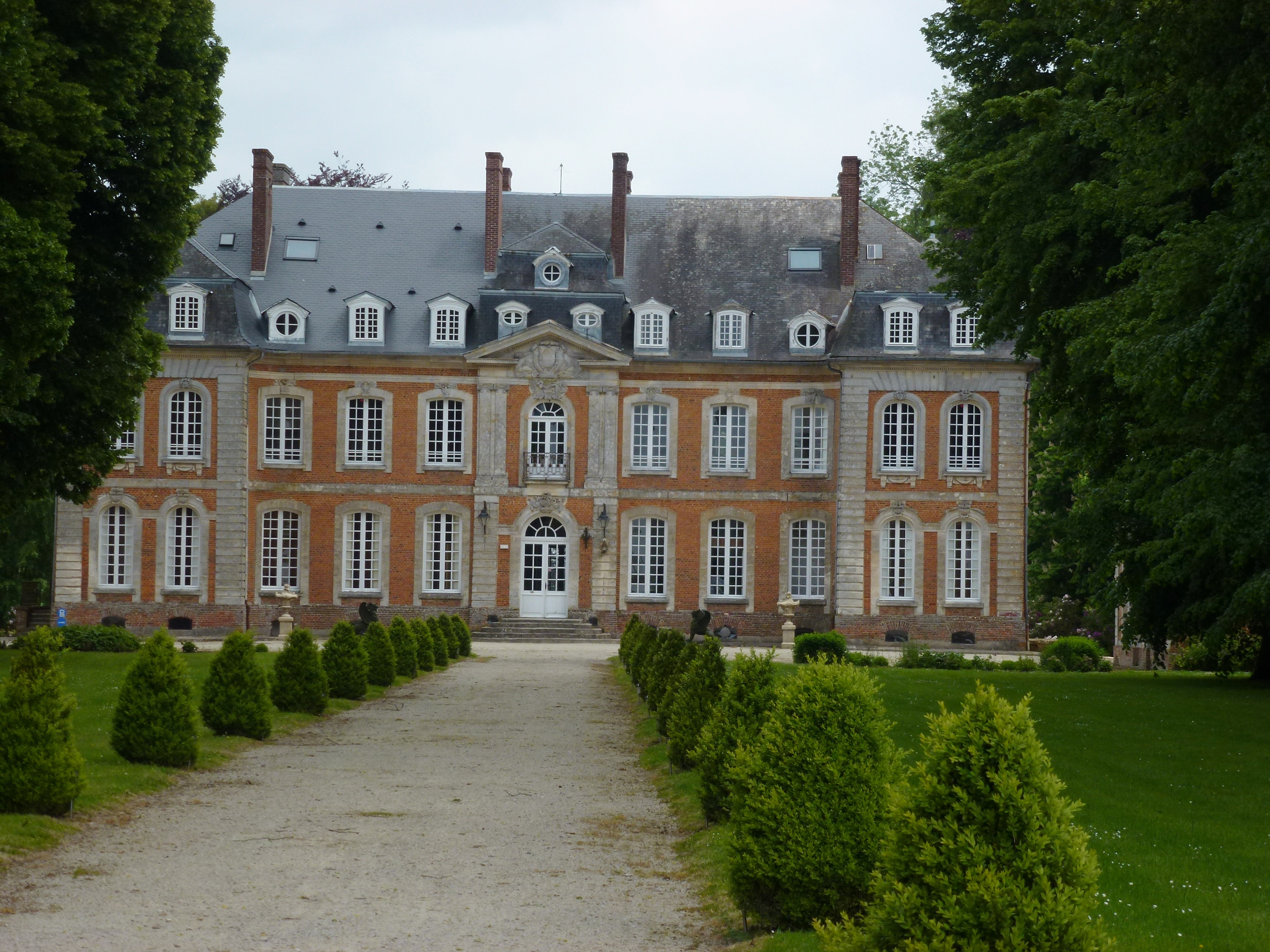 Carsix (Eure, Fr) château